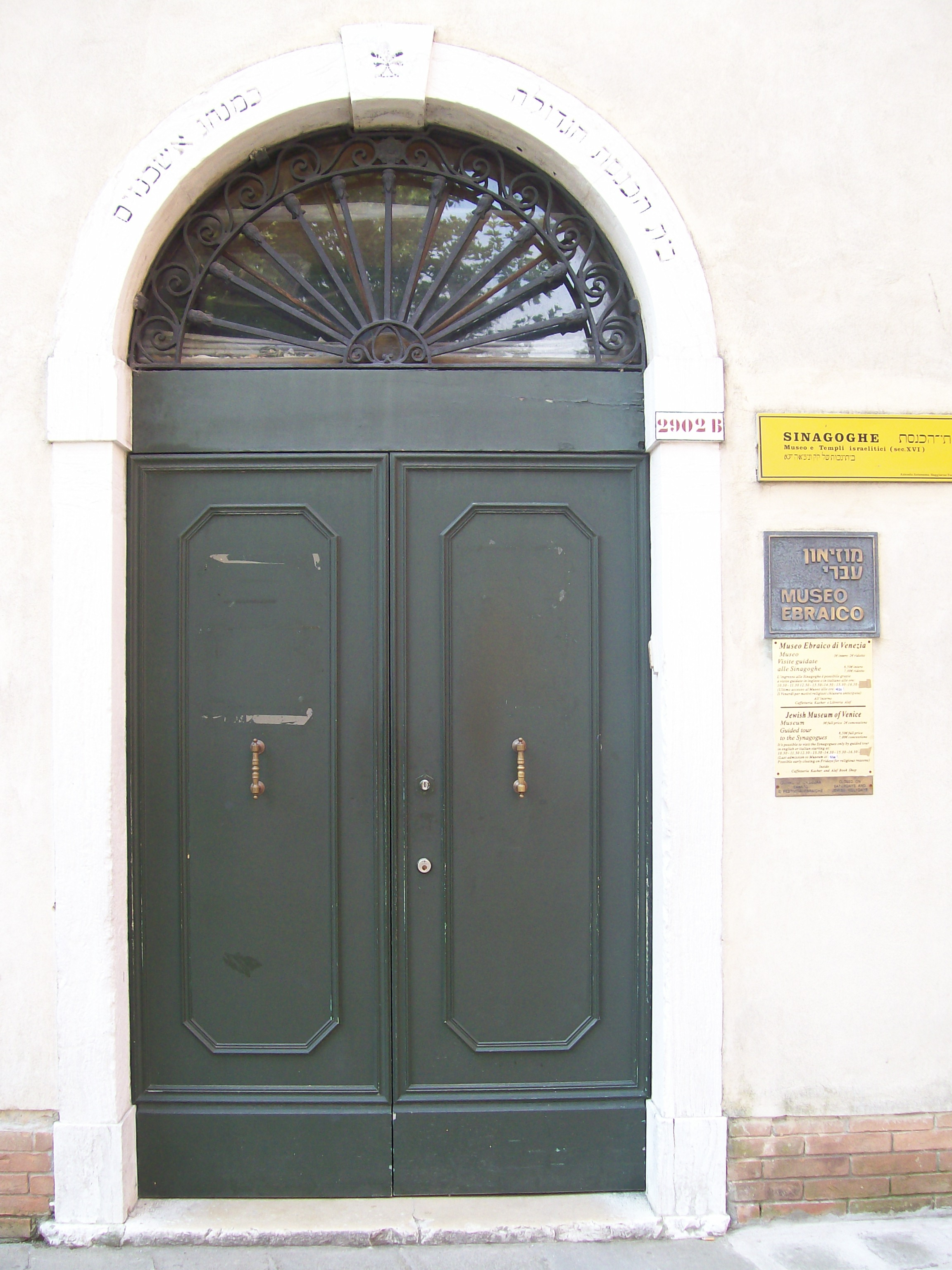 Entrance to synagogues in Venice. (Great german synagogue and Canton synagogue).